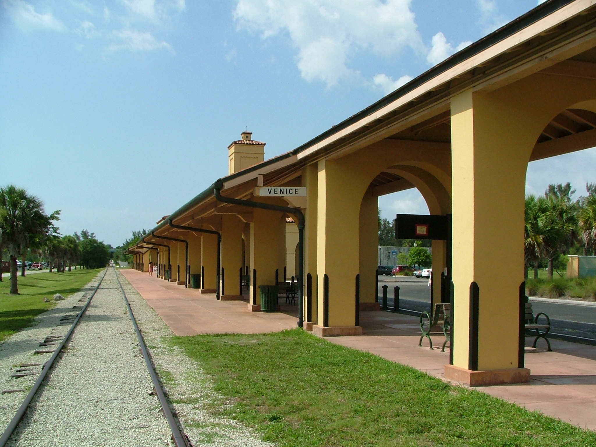 Venice Seaboard Air Line Railroad Depot, Venice, Florida (USA), viewed from south end of station platform and railroad tracks.